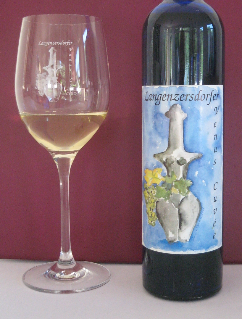 The famous Wine "Venus Cuvée" from Langenzersdorf, Lower Austria. The label shows a watercolour painting by Martina Schettina. (Entstehungsjahr 2000)